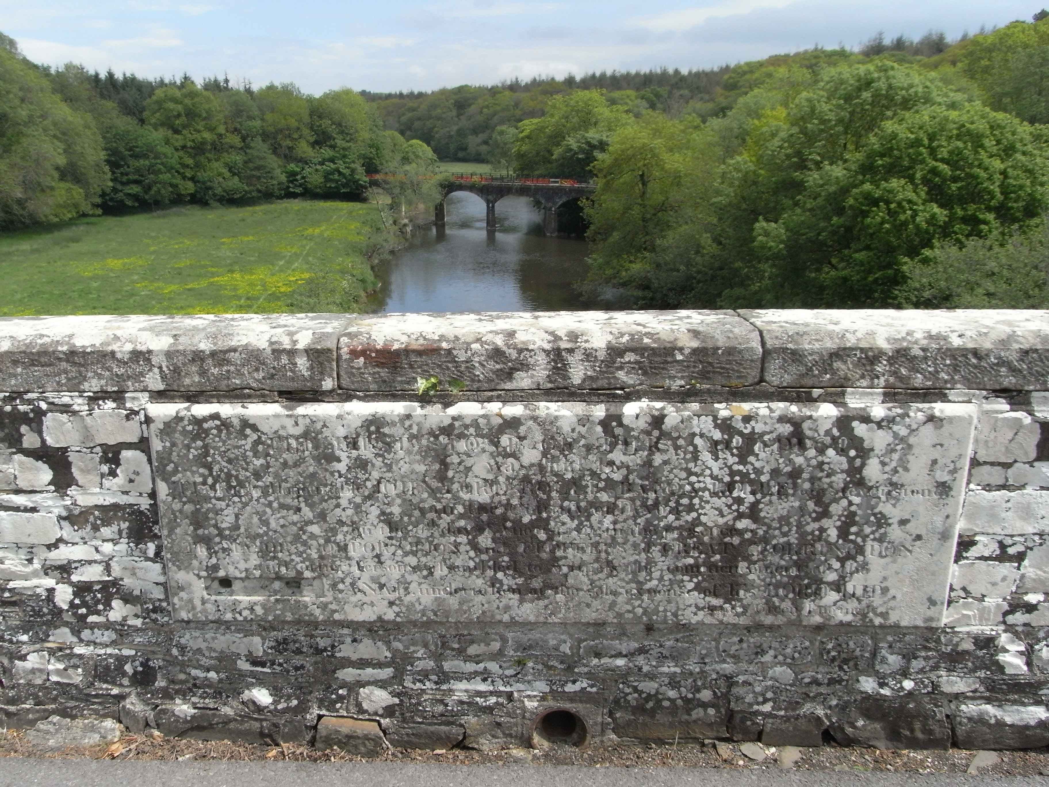 Beam Aqueduct, near Great Torrington, Devon. Inscribed tablet on parapet, looking north-east toward disused railway bridge over River Torridge. Text: "The first stone of this aqueduct was laid by the Right Honourable John Lord Rolle, Baron Rolle of Stevenstone in the county of Devon, on the 11th day of August 182(1?) in the presence of the mayor, corporation and feoffees of Great Torrington and other persons assembled to witness the commencement of the (word chiselled out) CANAL undertaken at the sole expense of his Lordship. James Green Engineer".